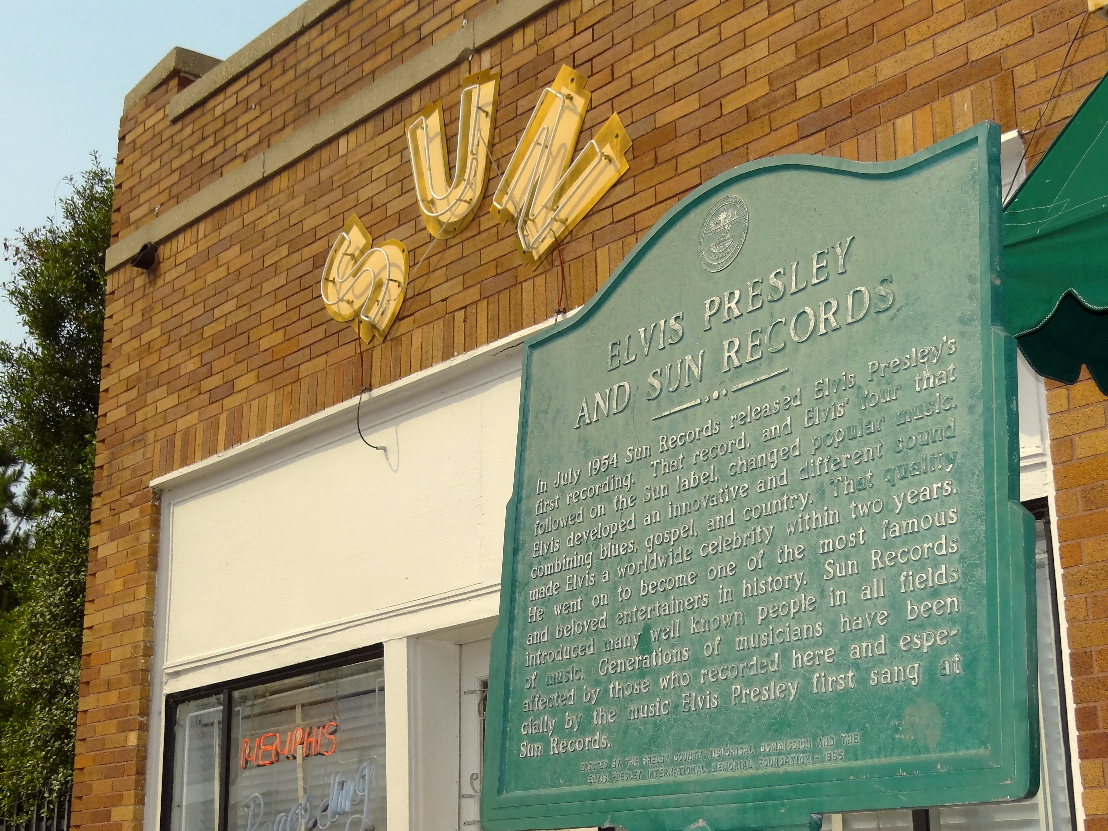 Facade of Sun Records Studio with Elvis Presley Plaque - Memphis - Tennessee - USA